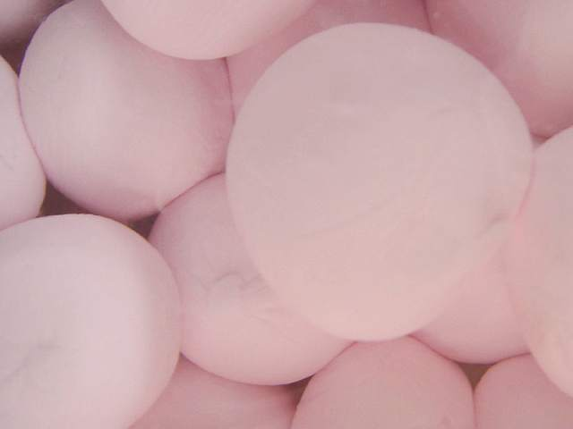 Pink Marshmallows.